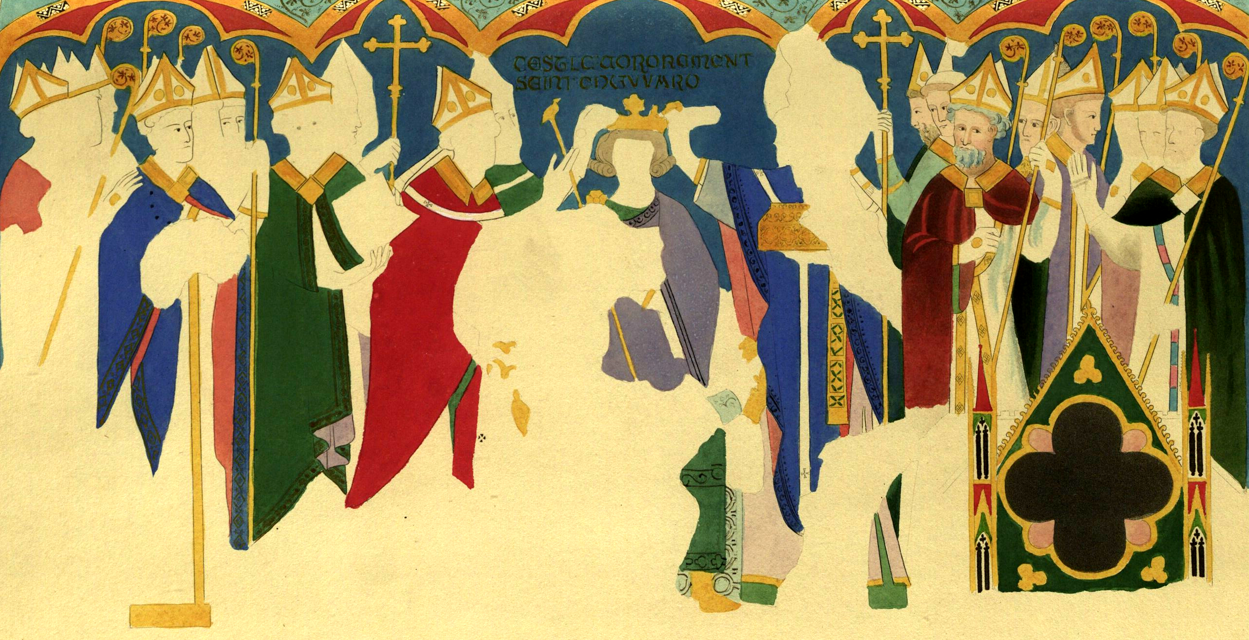 Watercolour copy of mural of the Coronation of Edward the Confessor in the Painted Chamber at Westminster Palace, Society of Antiquaries